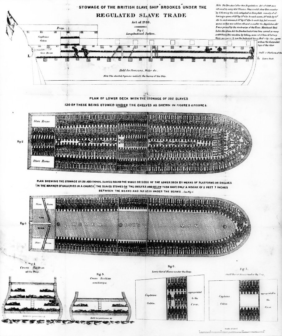 Slave ship poster, from